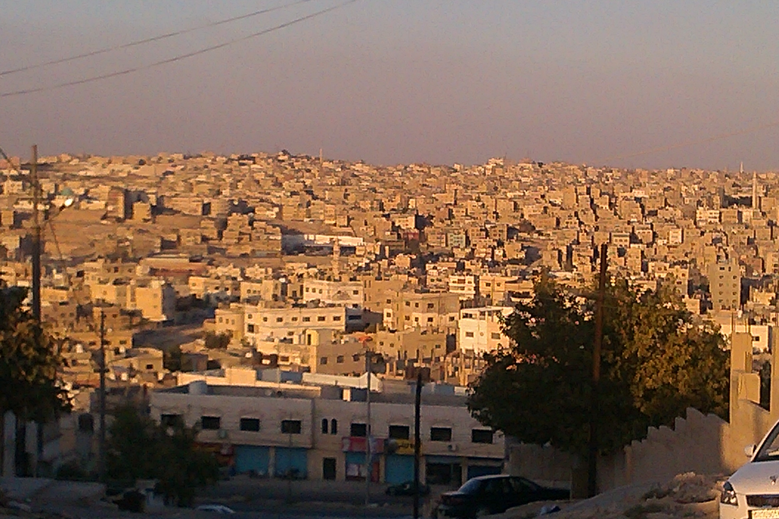 View of central Zarqa